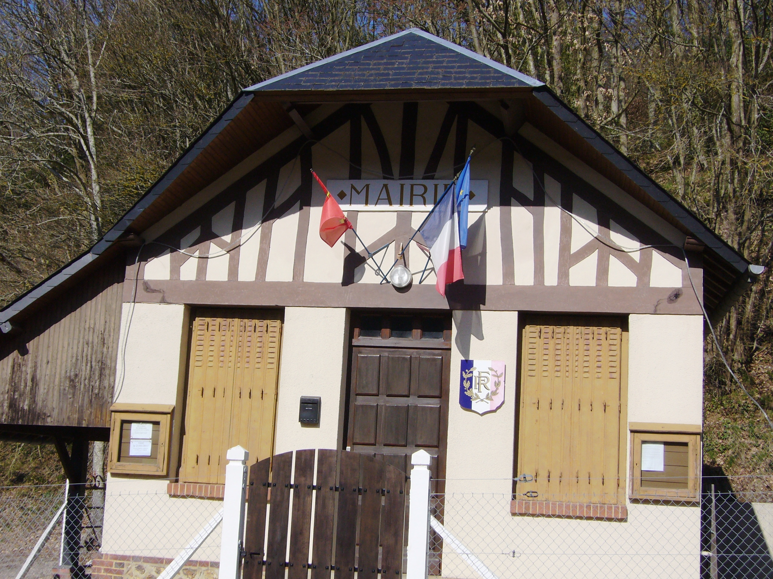 Champignolles Mairie, Normandy